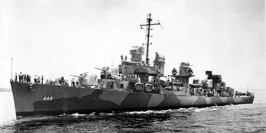 The U.S. Navy destroyer USS Radford (DD-446) underway sometime in 1942, location unknown. She was commissioned on 22 July 1942 and is painted in Camouflage Measure 12 (Modified). Note that her radars are still missing.